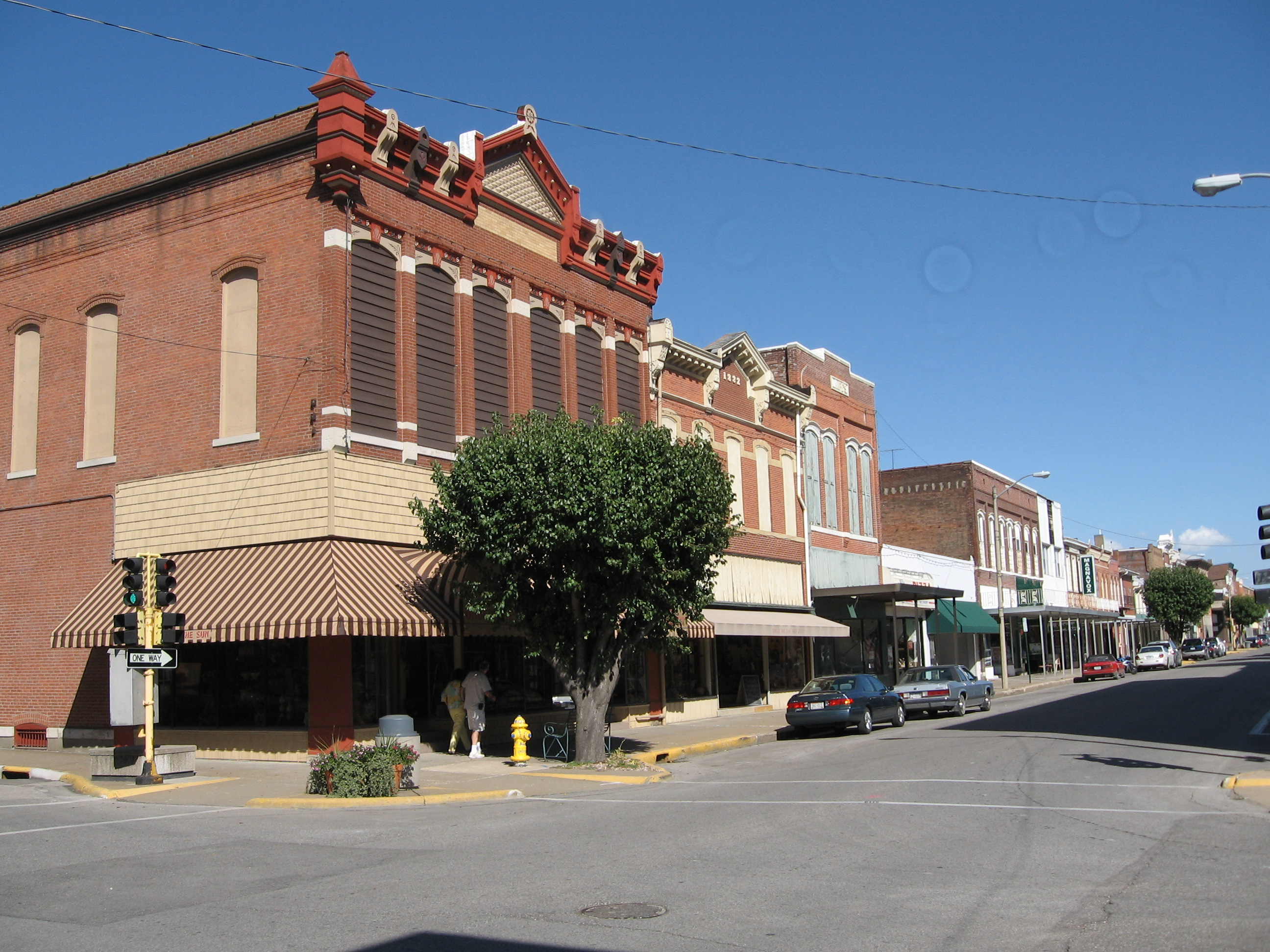 Downtown Fort Madison, Iowa. Buildings are located along Avenue G in the Fort Madison Downtown Commercial Historic District, listed on the National Register of Historic Places